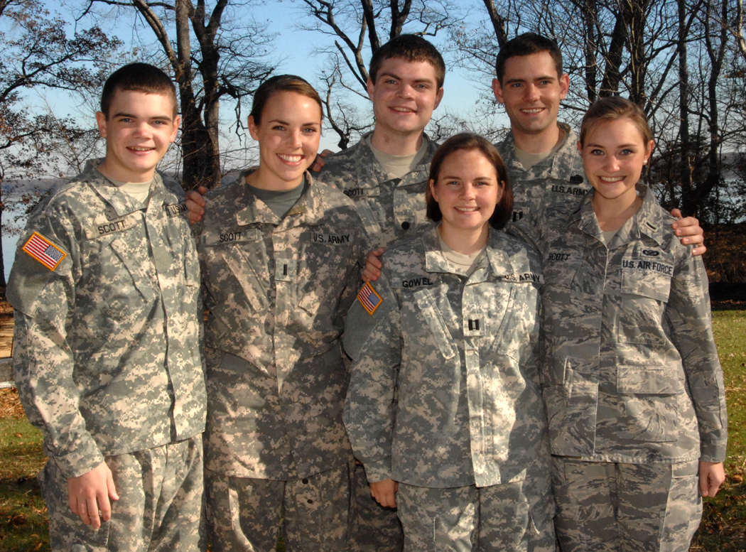 Capt. Kate Gowel, bottom row, left, poses for a picture with her siblings at her parents' home in Lorton, Va. Gowel, a military lawyer, was the first of six siblings to join the military. See more at West Point grad, family bring new meaning to word service